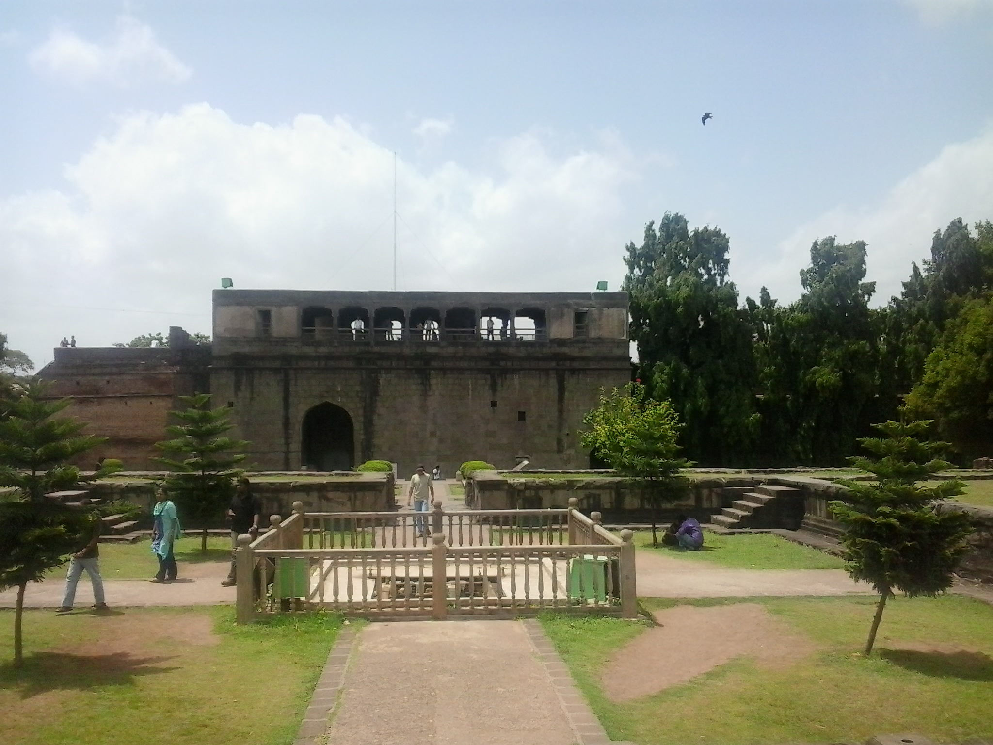 Shaniwarwada